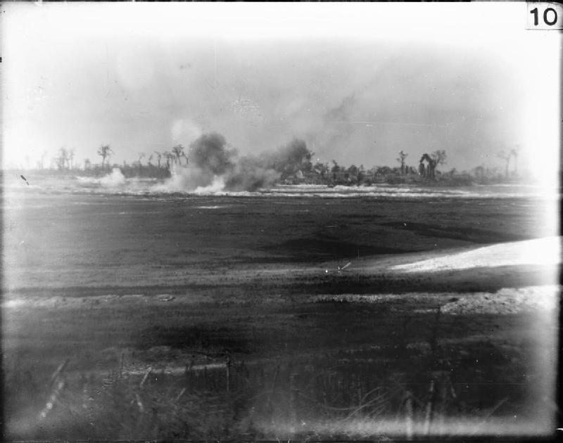 Battle of Albert, Somme, France. British artillery bombard the German trenches immediately prior to the attack, Beaumont Hamel.